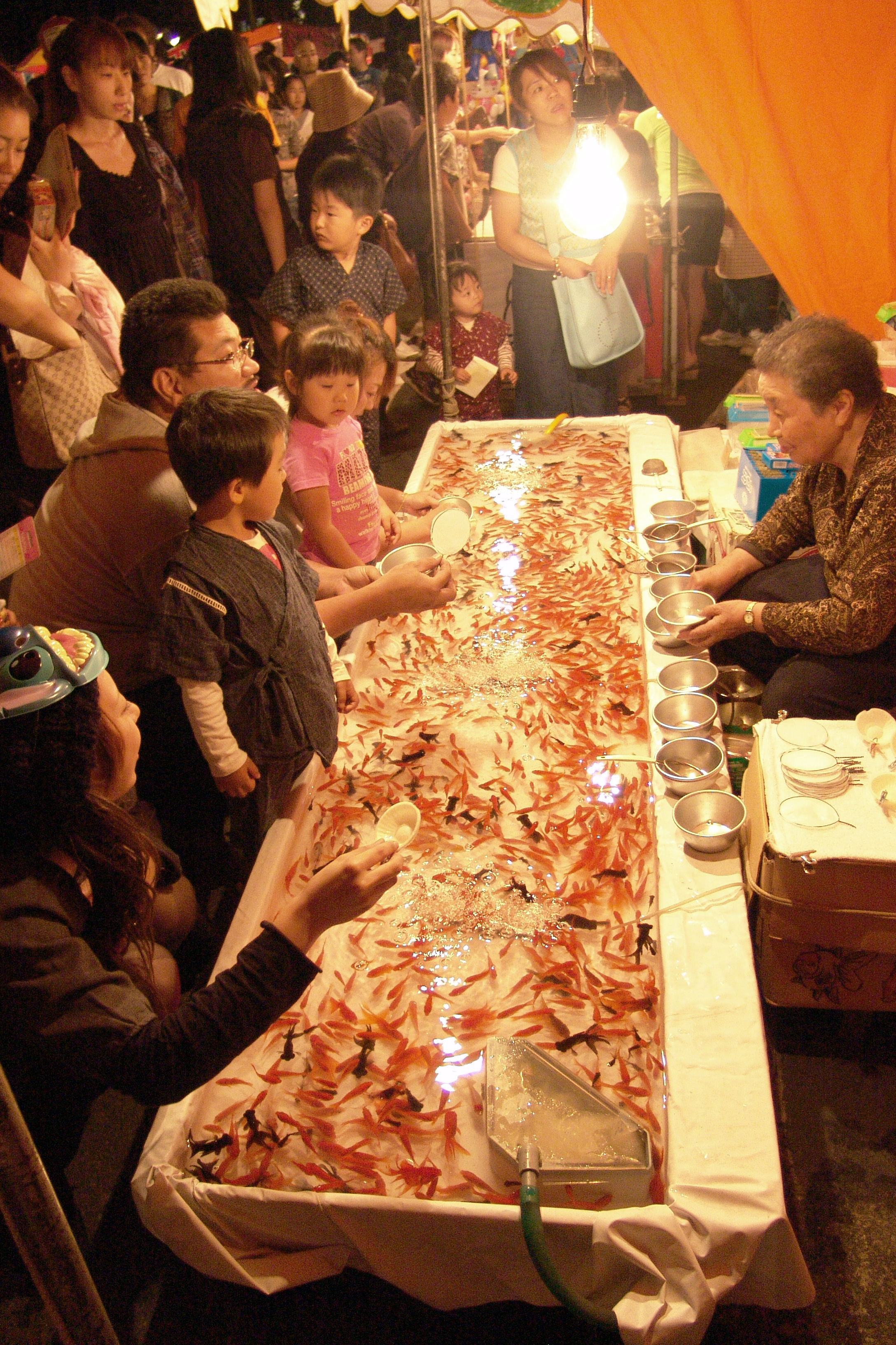 Goldfish scooping game. (Sensitive film mode.)